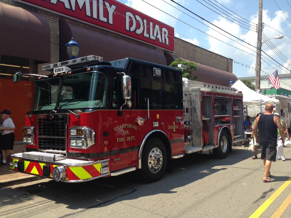 Sharpsburg Vol. Fire Dept. Engine 265.